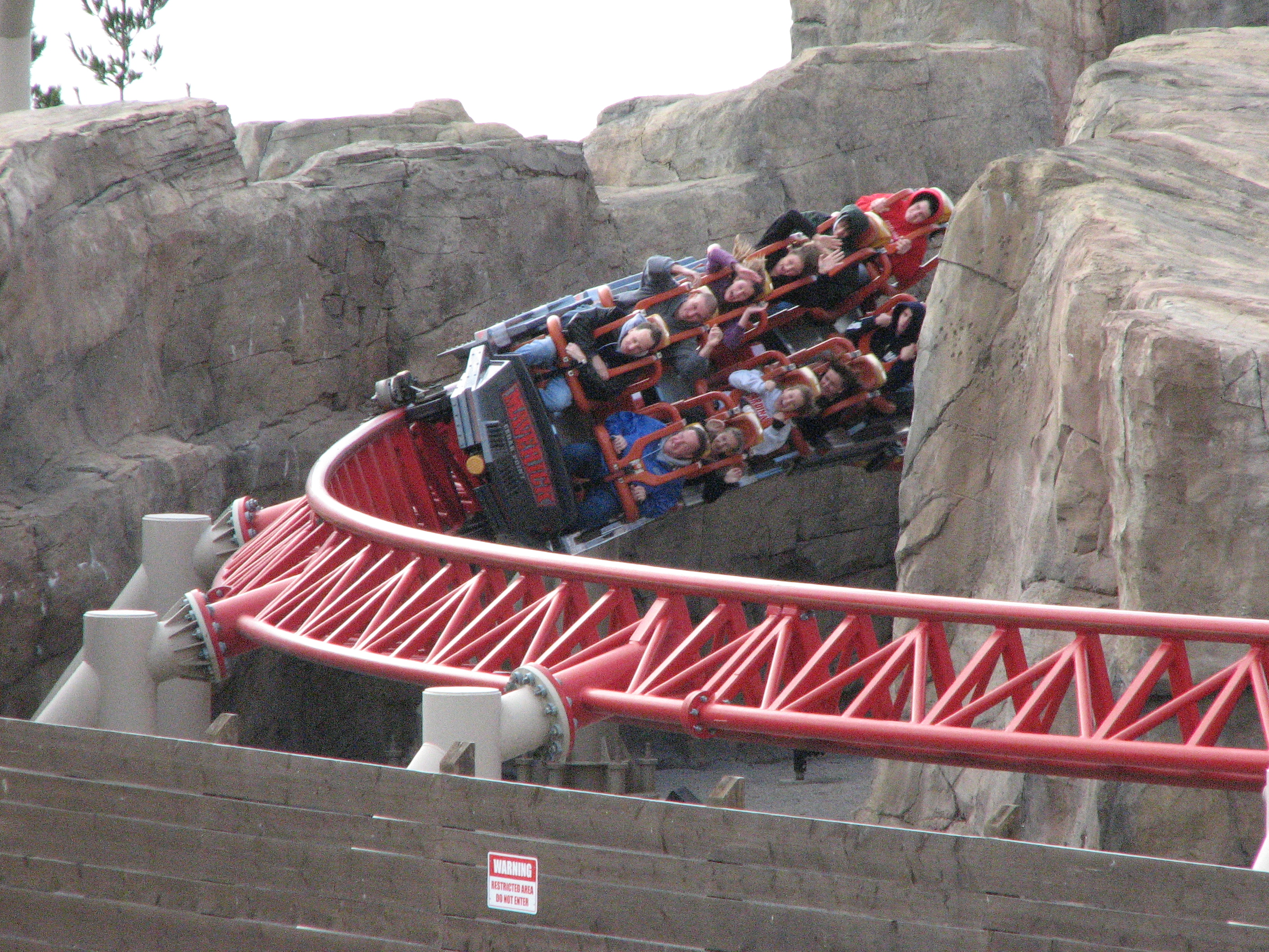 One of Maverick's train exiting one of the canyons at Cedar Point.